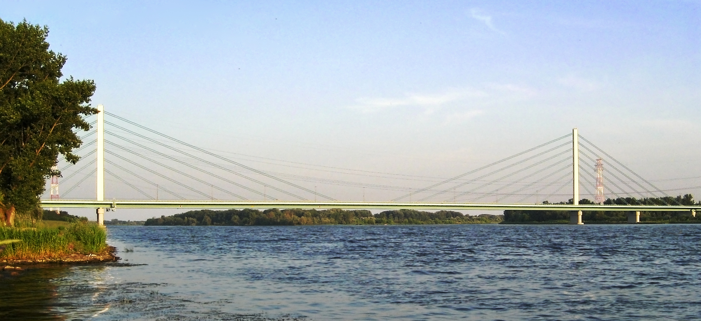 Solidarity Bridge in Płock, Poland